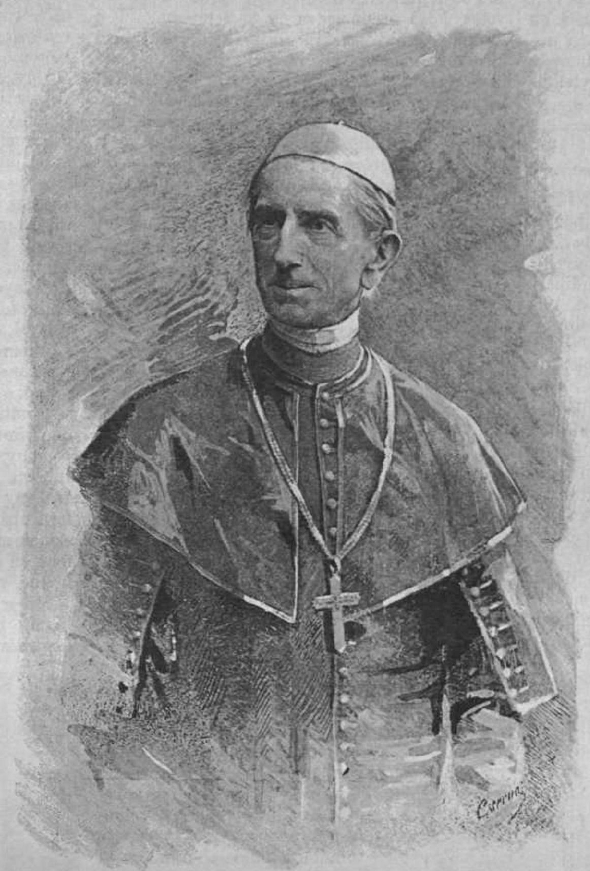 György Schopper